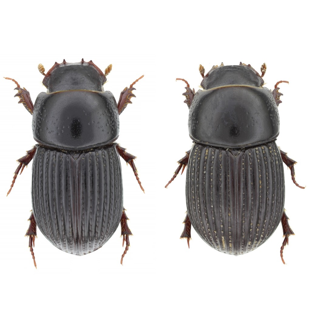 Ahermodontus bischoffi male (left) and female (right)